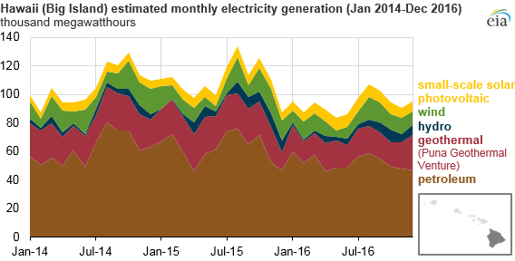 More than half of the Hawaii's Big Island’s power generation mix was fueled by petroleum in 2016. The remaining 44% was from various renewable sources. July 17, 2018